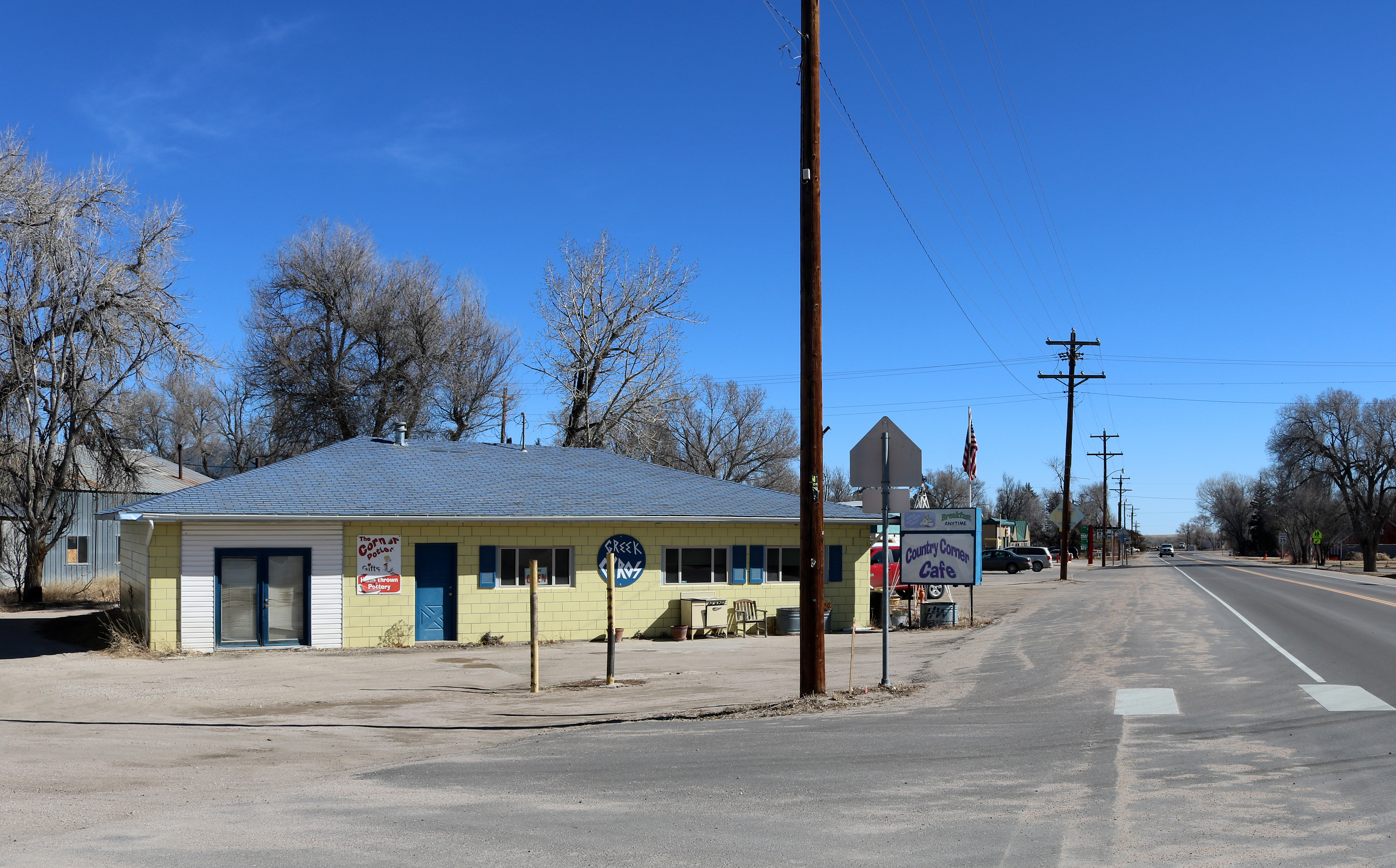 A view of part of Simla, Colorado, in Elbert County. The view is to the east along U.S. Route 24, from its intersection with Sioux Avenue in Simla. The Country Corner Cafe appears on the left.